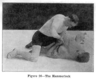 Hammerlock as illustrated the scan of Figure 26 in Lessons in Wrestling & Physical Culture.